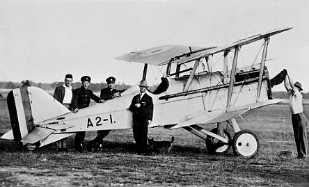 Unidentified civilians and Royal Australian Air Force (RAAF) personnel standing around a Royal Aircraft Factory SE5a aircraft with the registration A2-1 at Yanakie, Victoria. This aircraft was one of 35 SE5a fighters given by the British government as an Imperial Gift to Australia in 1920, and entered RAAF service in 1925 after a period of storage. In late 1927 this aircraft was written off after crashing at Armidale, NSW. SE5 and SE5a aircraft quickly made an impression over the Western Front during the First World War. They were generally armed with a fixed Vickers gun on the fuselage and a moveable Lewis gun mounted on the upper wing.